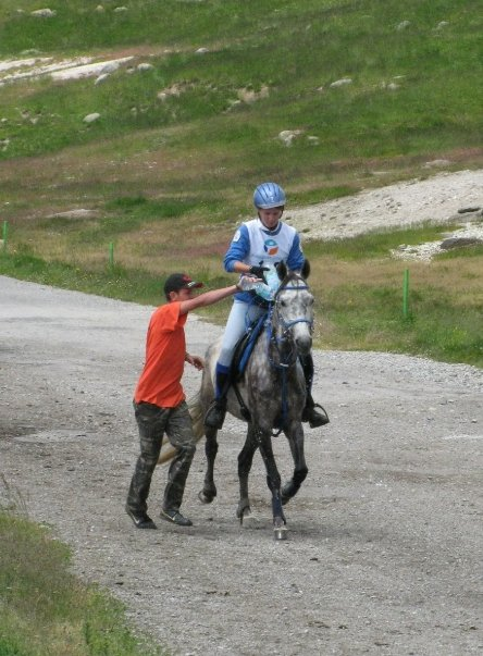 Endurance ride